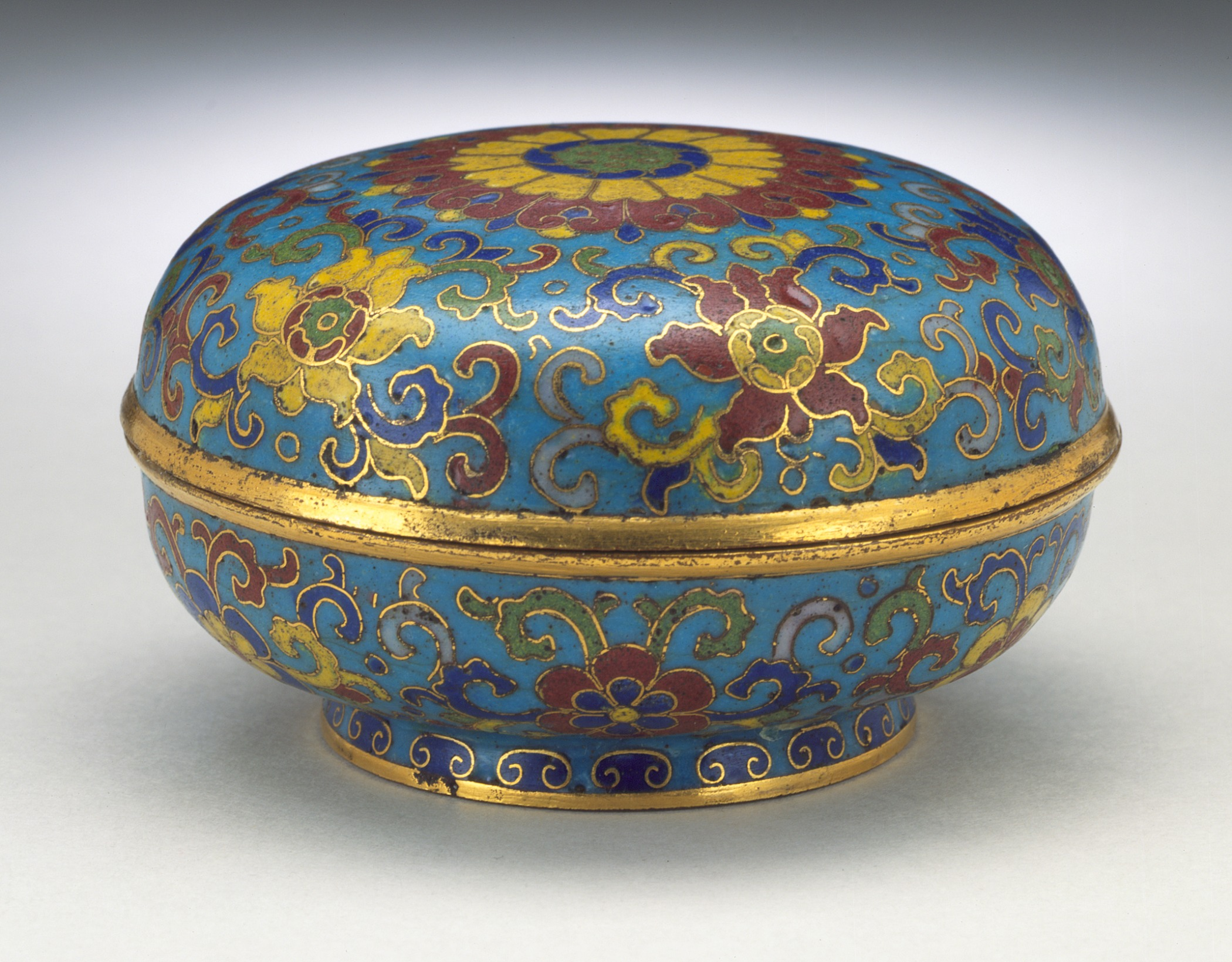 China, Qing dynasty, Qianlong mark and period, 1736-1795 Furnishings; Accessories Cast bronze with cloisonné enamel decoration Height: 1 5/8 in. (4.1 cm); Diameter: 3 3/4 in. (9.5 cm) Douglas Honnold Memorial Fund and Far Eastern Art Council Fund (M.75.18a-b) Chinese Art